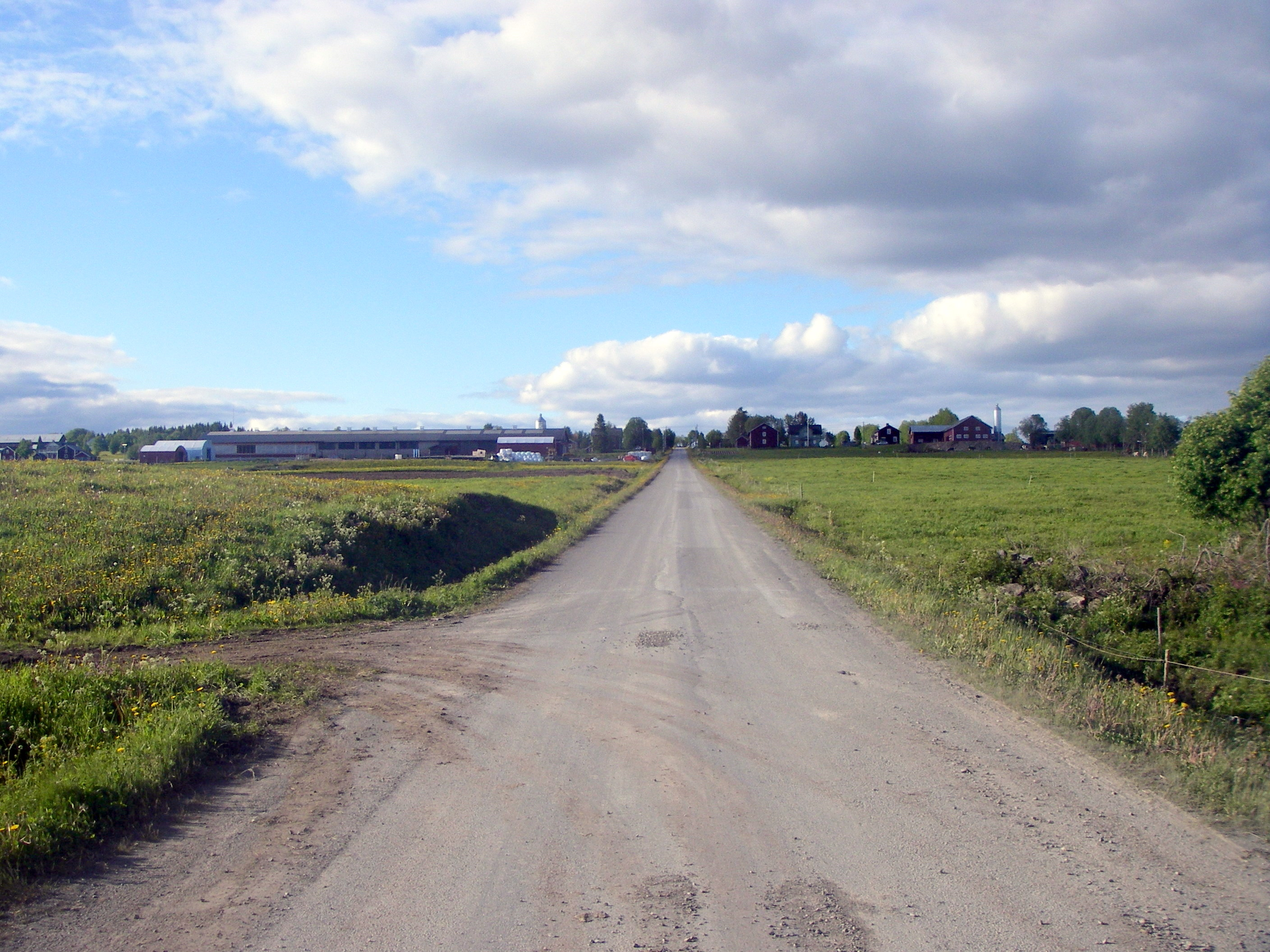 The village of Raftsjöhöjden in Jämtland, Sweden.